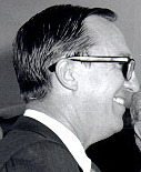 (L to R) Gus Mutscher, Preston Smith, Lyndon Johnson, and Ben Barnes, at "Gus Mutscher Day" in Brenham, Texas, United States.